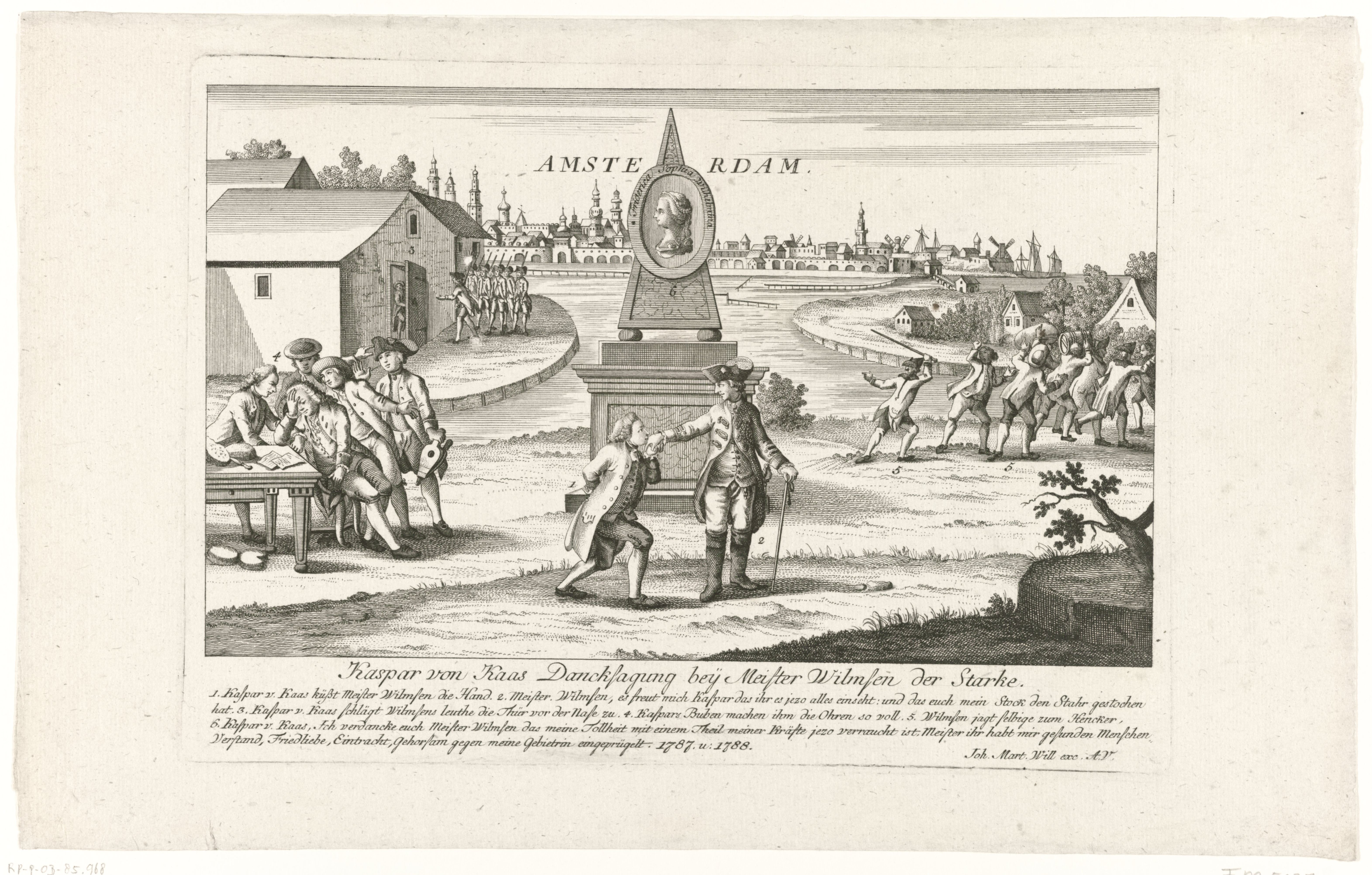 Cartoon about burgomaster Hendrik Danielsz Hooft, 1787, inspired by his dismissal, with caption "Kaspar von Kaas Dancksagung beij Meister Wilmsen der Starke". Hooft kisses the hand of stadtholder William V.